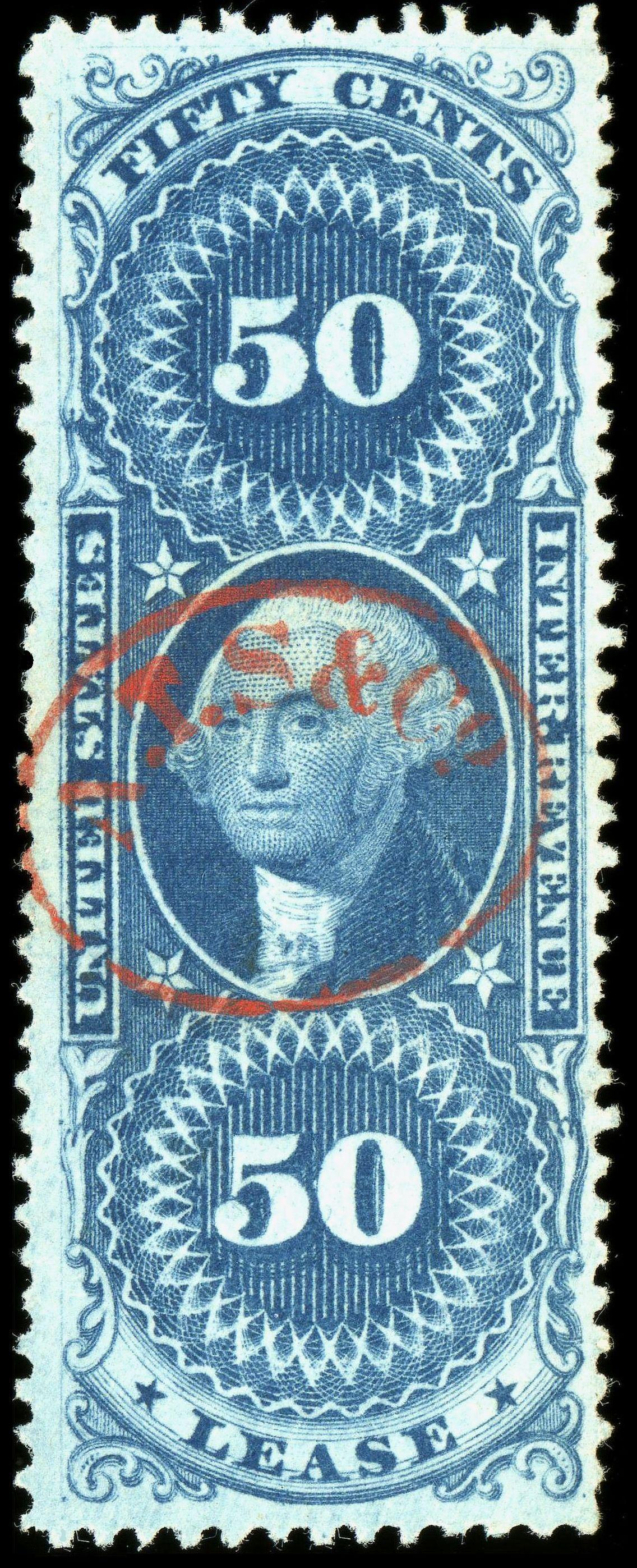 Image of Washington revenue lease tax stamp, 50c issue of 1862